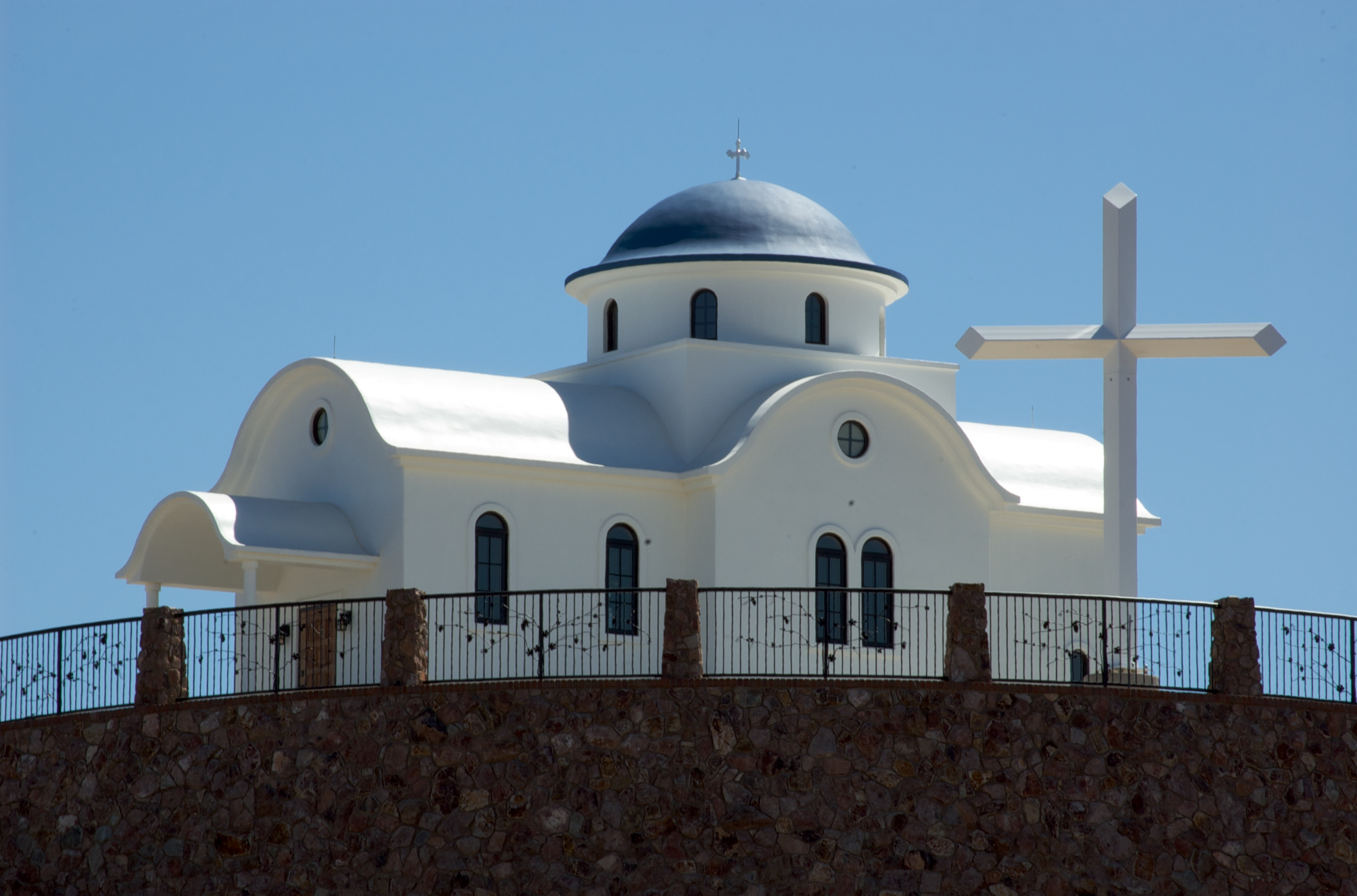 On Saturday my wife and I visited St. Anthony Greek Orthodox Monastery near Florence, Arizona. This chapel (still under construction) is on a small hill and is visible on the drive approaching the monastery. For more information, I will be showing several other photos of the grounds of this lovely oasis in the desert over the coming days. The photo below was taken from within the monastery grounds looking through the fence. Notice the saguaro cacti at the base of the hill.